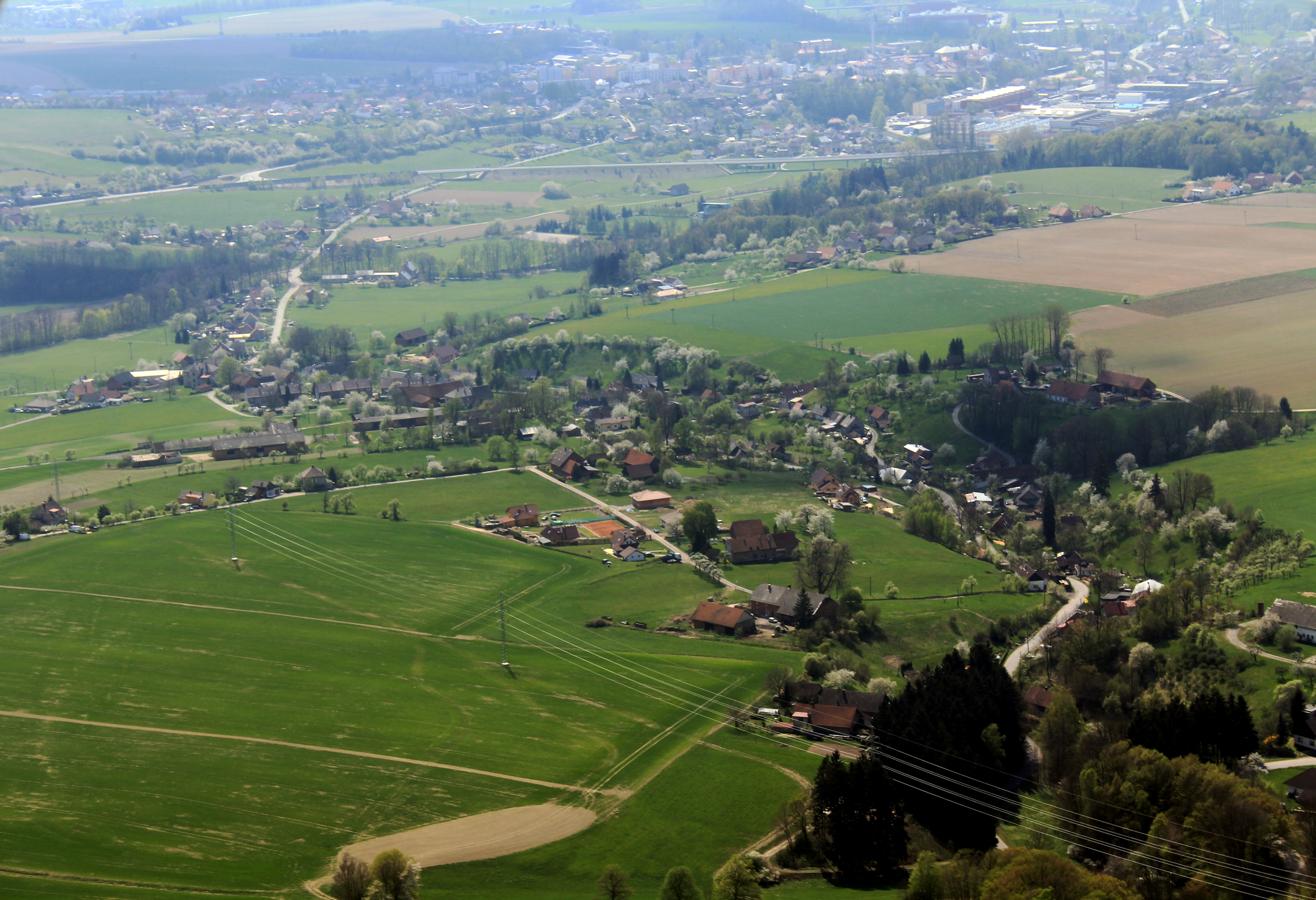 Small town Vamberk and its part village Peklo, from air, eastern Bohemia, Czech Republic